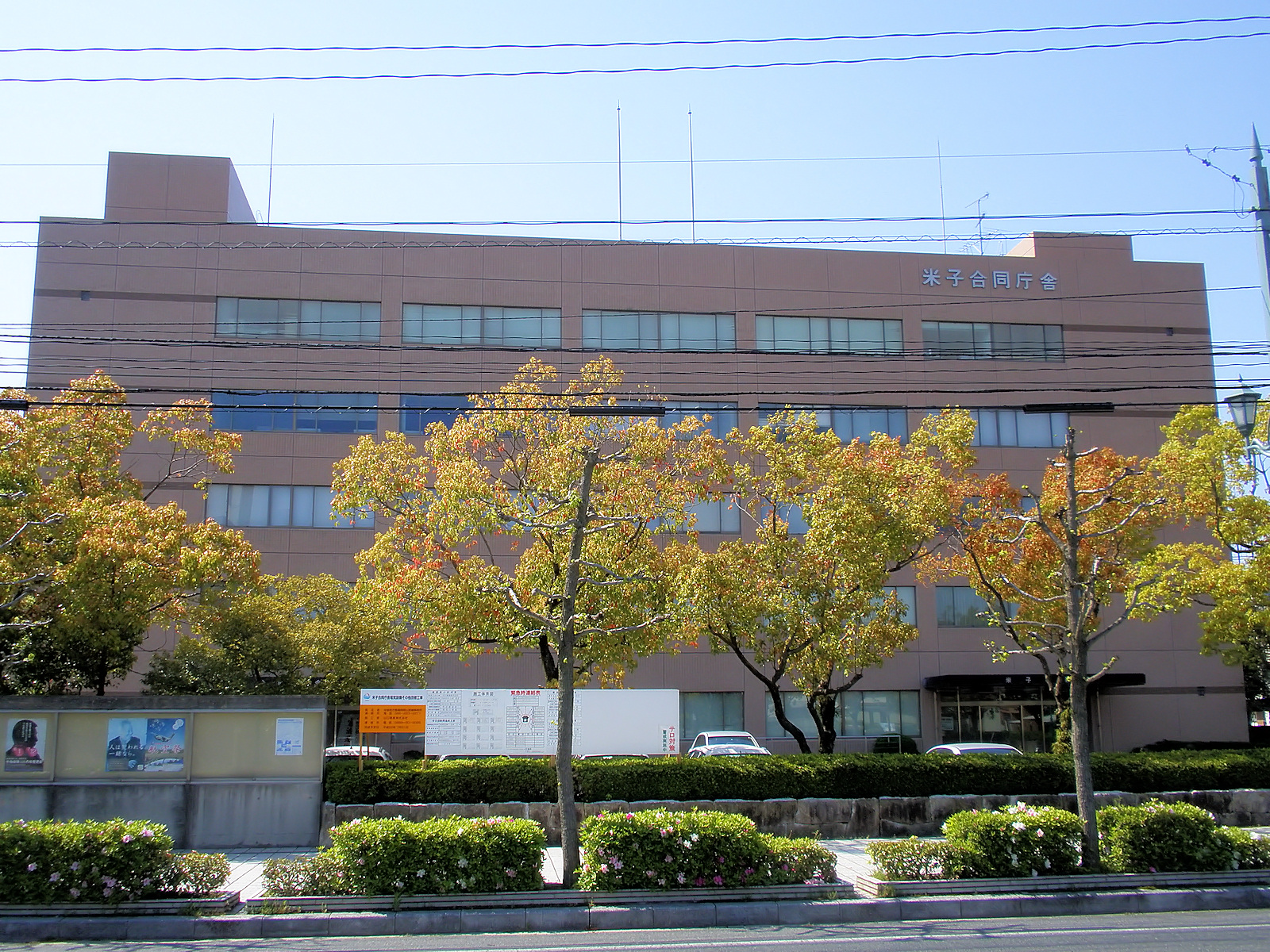 Yonago regional joint government building Chugoku-Shikoku defense bureau / Miho defense office Chugoku-Shikoku regional environmental office / Yonago nature conservation office Tottori district public prosecutors office Yonago branch Yonago local public prosecutors office Tottori probation office / Yonago resident official office Hiroshima regional taxation bureau / Yonago tax office Chugoku-Shikoku regional agricultural administration office / Tottori area center Yonago branch Tottori labour bureau / Yonago labour standards inspection office